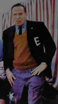 Osvaldo Zubeldia during his time as manager of Estudiantes de La Plata